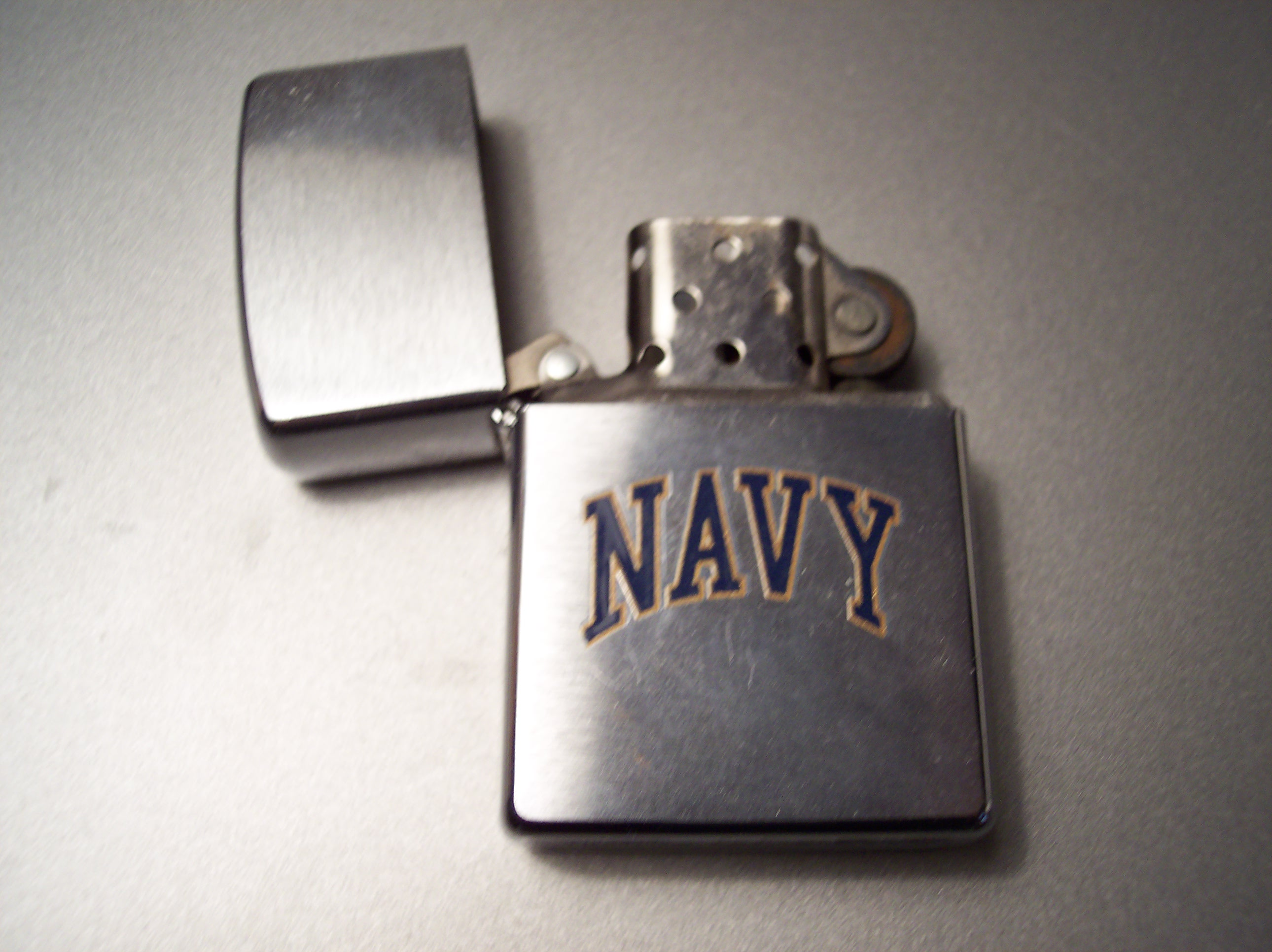 Photo taken by myself